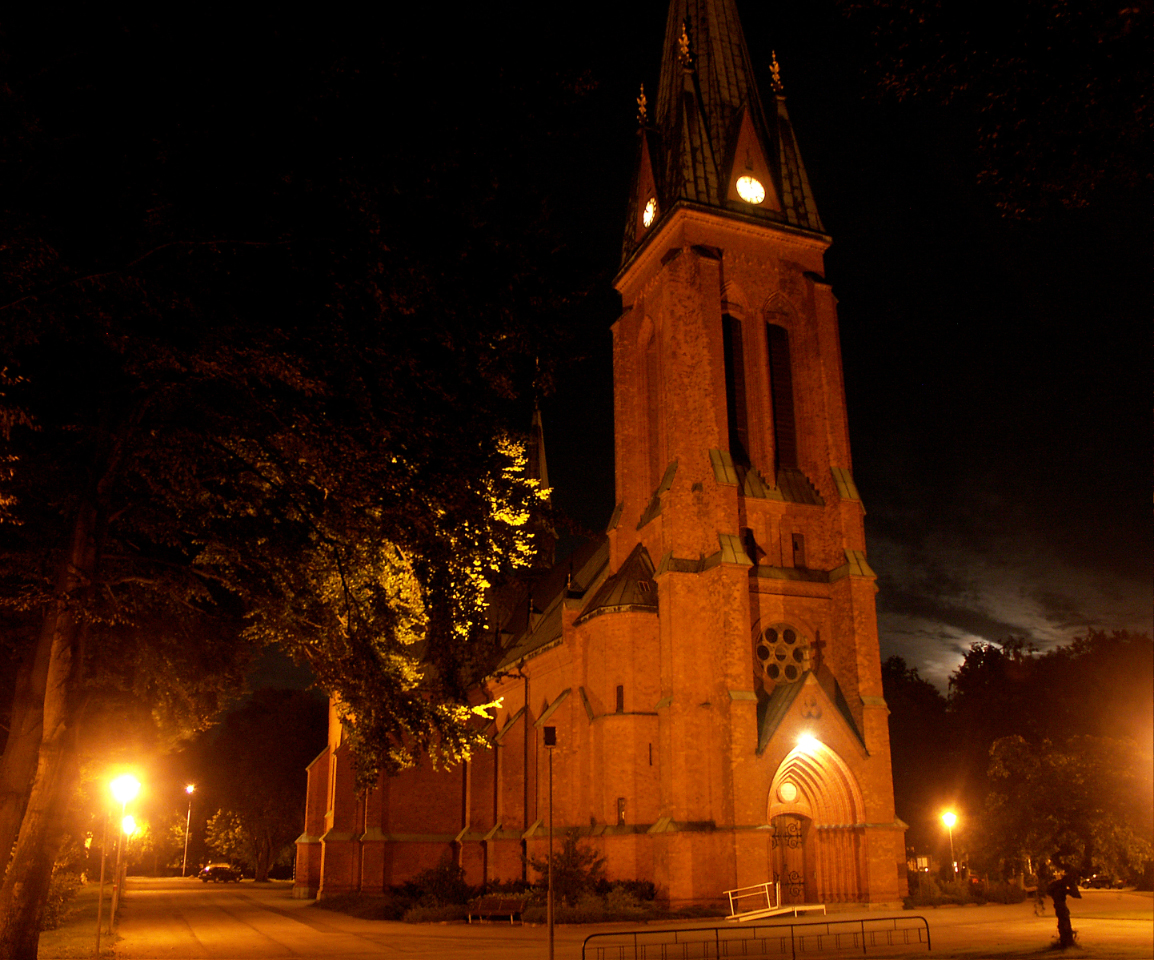 Eslövs kyrka (Church of Eslöv) at night.